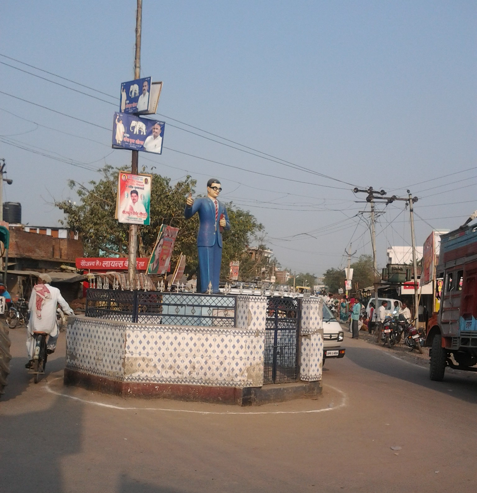 Ambedkar chauraha rath at Rath in Hamirpur district in the Indian state of Uttar Pradesh